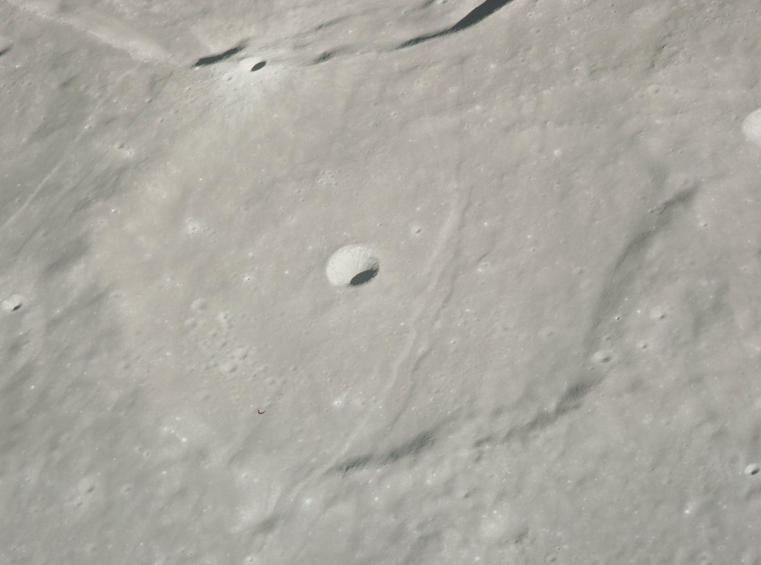 Oblique view of Chacornac crater, on the moon.